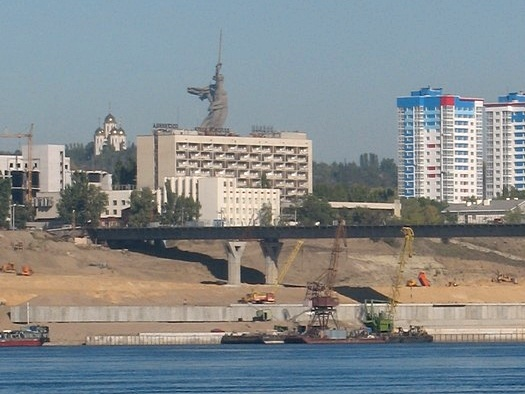 The construction of Volgograd bridge through Volga river in 2007.